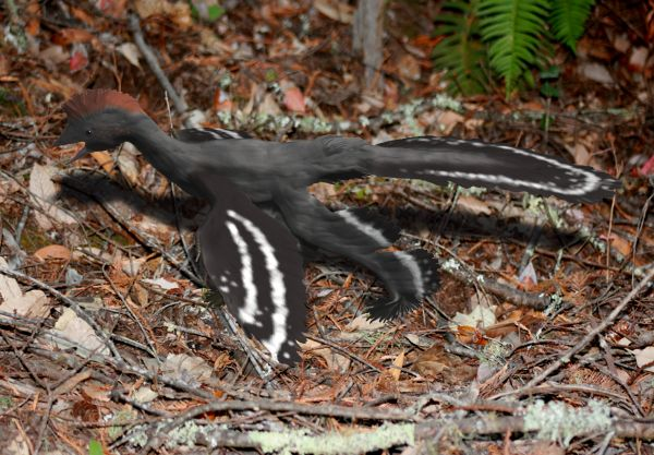 Anchiornis huxleyi, a maniraptoran from the Late Jurassic of China, pencil drawing. Digital.